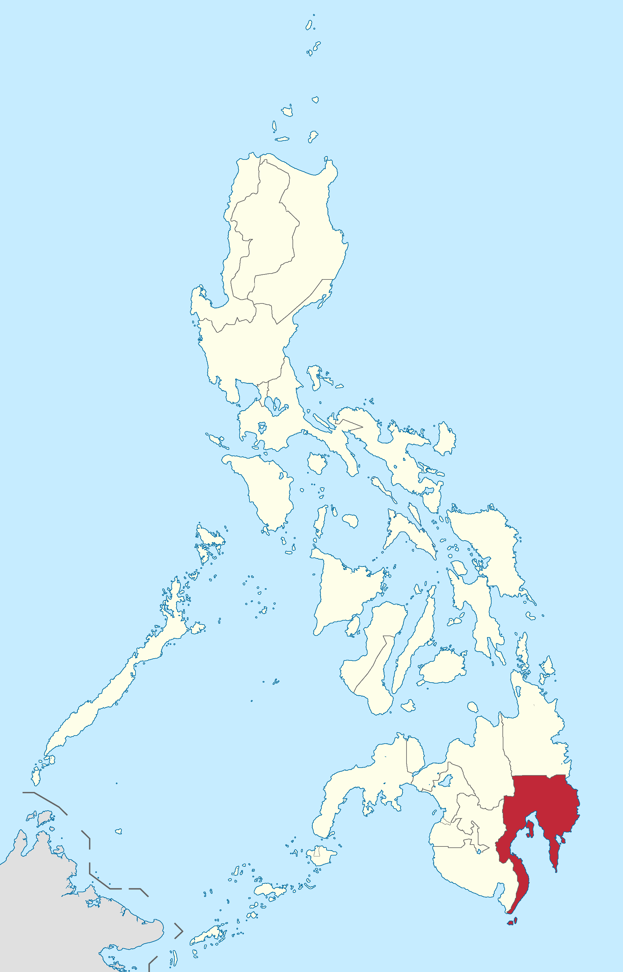 Location of Davao region in the Philippines. Filipino: Kinaroroonan ng rehiyon ng Davao sa Pilipinas.